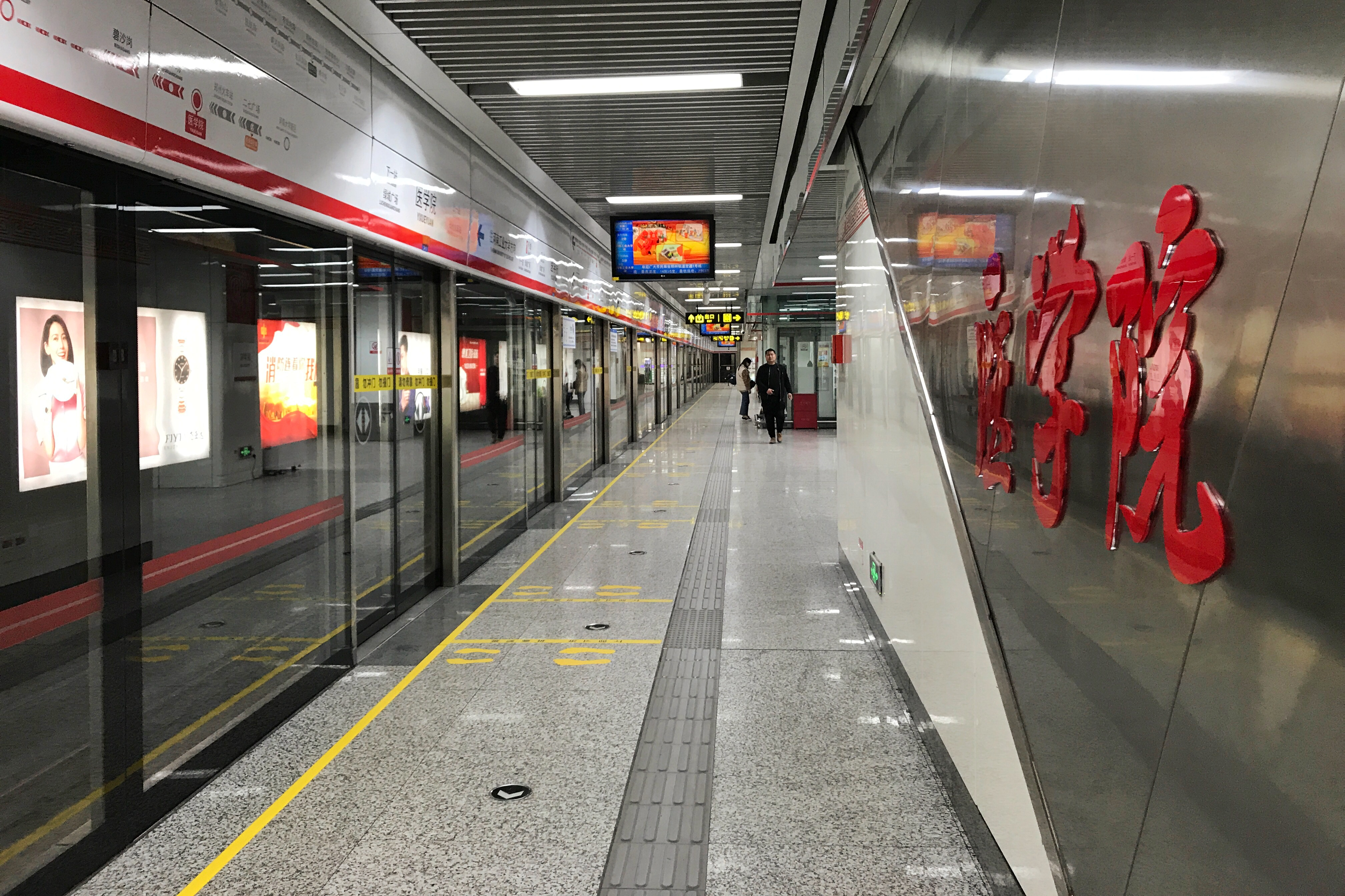 Platform of Yixueyuan Station